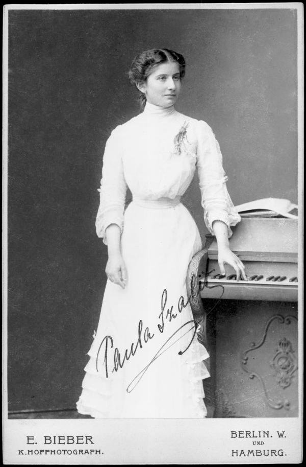 Portrait photograph of Polish pianist and composer Paula Szalit, leaning against a piano